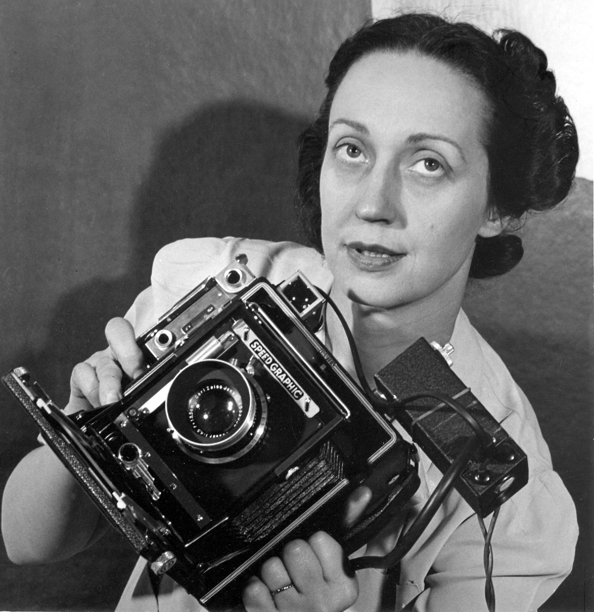 Barbara Morgan with Graflex